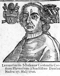 Cardinal Lorenzo Corsini, future Pope Clement XII